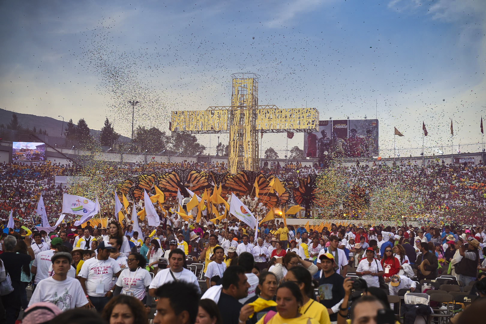 MORELIA;MEXICO: Tens of thousands of people greet Pope Francis at the 'Meeting with young people' at the Jose Maria Morelos Pavon Stadium on Tuesday February 16, 2016. Photo by Marko Vombergar